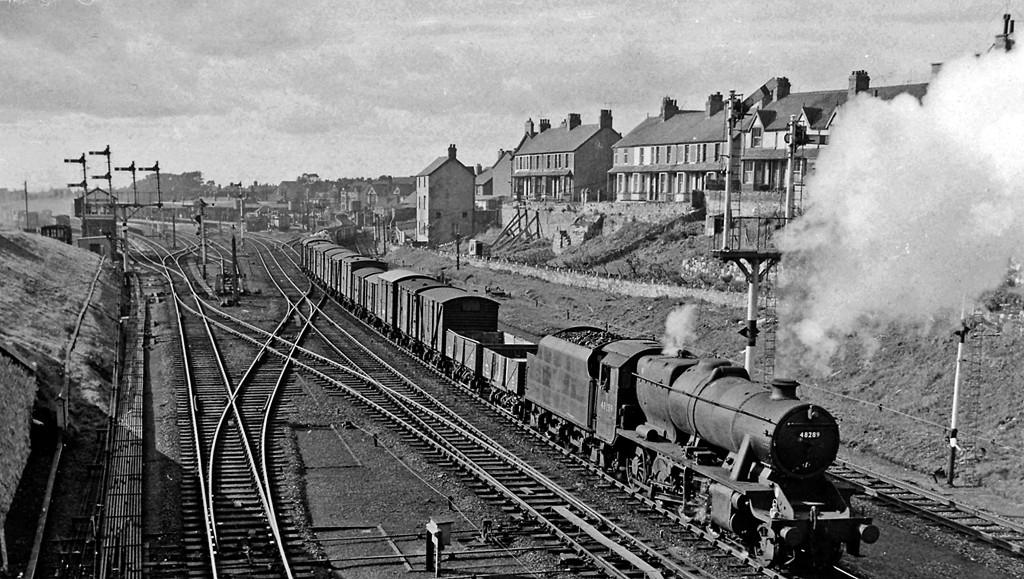 Up freight leaving Llandudno Junction. View westward, towards Llandudno Junction, Llandudno, Bangor and Holyhead; ex-London & North Western Chester - Holyhead main line. the line directly underneath is the branch to Blaenau Ffestiniog; the branch to Llandudno runs west and north from the other end of the station. The train is a Class D, headed by Stanier 8F 2-8-0 No. 48289.